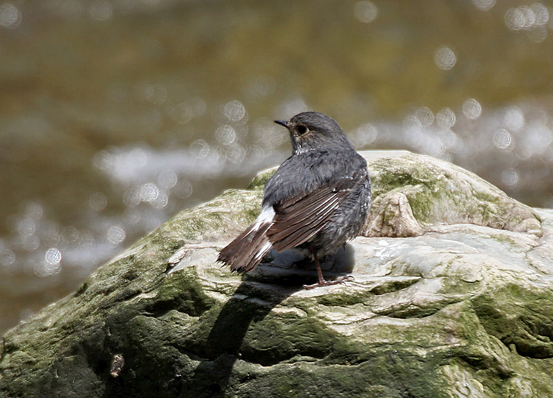 Plumbeous Water Redstart (Rhyacornis fuliginosus) in Kullu District of Himachal Pradesh, India.